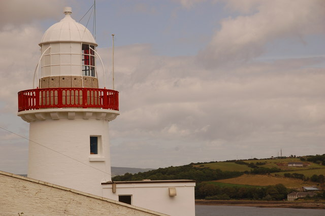 Youghal lighthouse. The building of Youghal lighthouse, at the entrance to Youghal harbour, was completed in 1849 but a light was not exhibited until 1852. It became unmanned in 1939 and was converted to electricity in 1964. When the lighthouse was built Youghal was a busy commercial harbour. It is still open for shipping but on a much reduced scale.